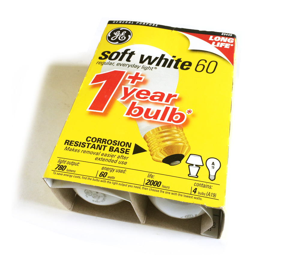 GE 60 watt package of 4 light bulbs, printed in English